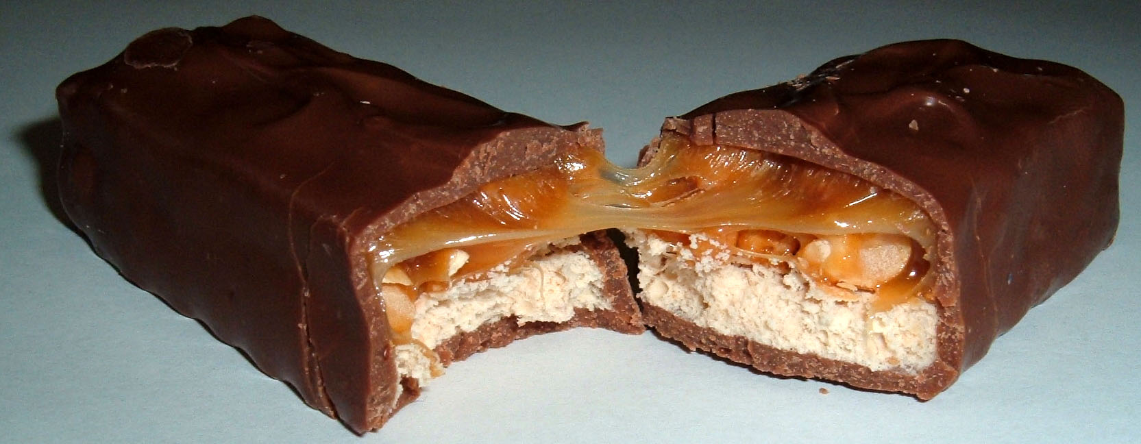 SnickersPurchased Feb. 2005 in Atlanta, GA, USA